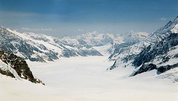 Photo of the Konkordiaplatz from the Jungfraujoch